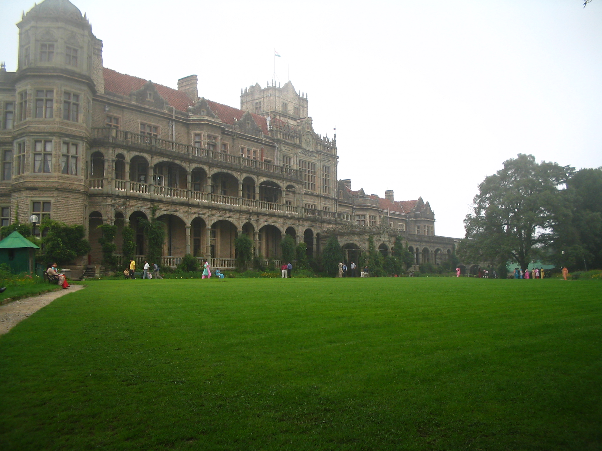 Rashtrapati Niwas, also known as Indian Institute of Advanced Study, Shimla, India. The whole ambiance is Royal and extravagant.